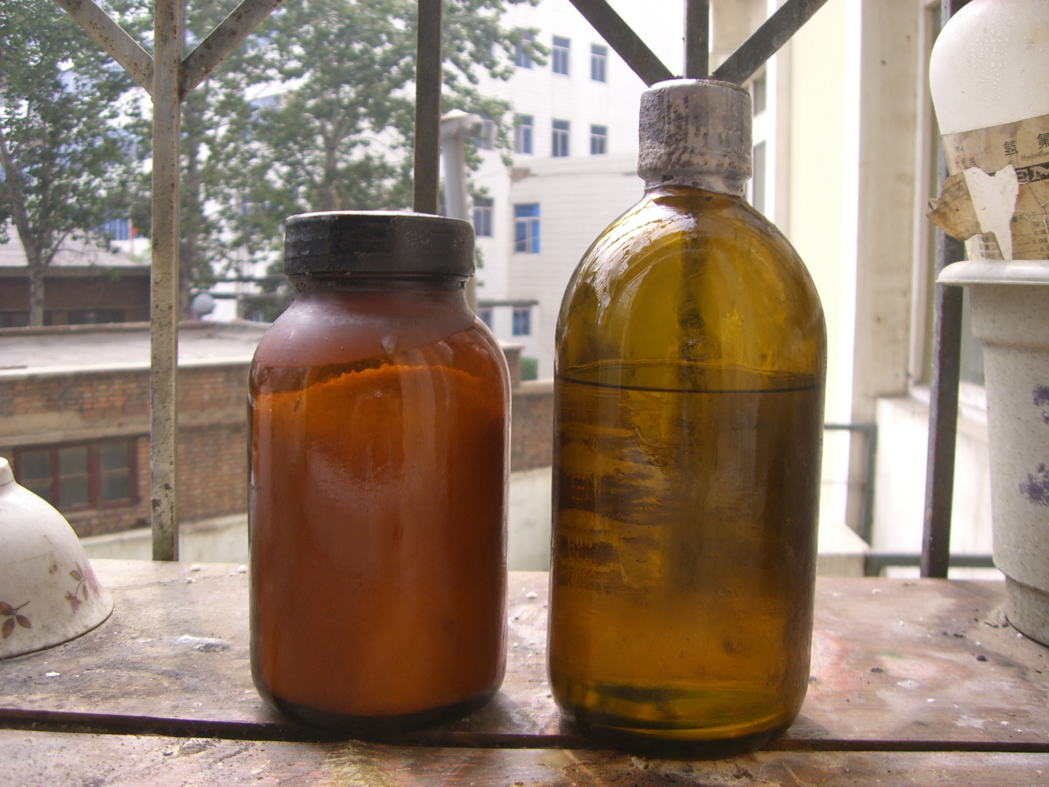 Phosphorus pentachloride and Phosphorus trichloride